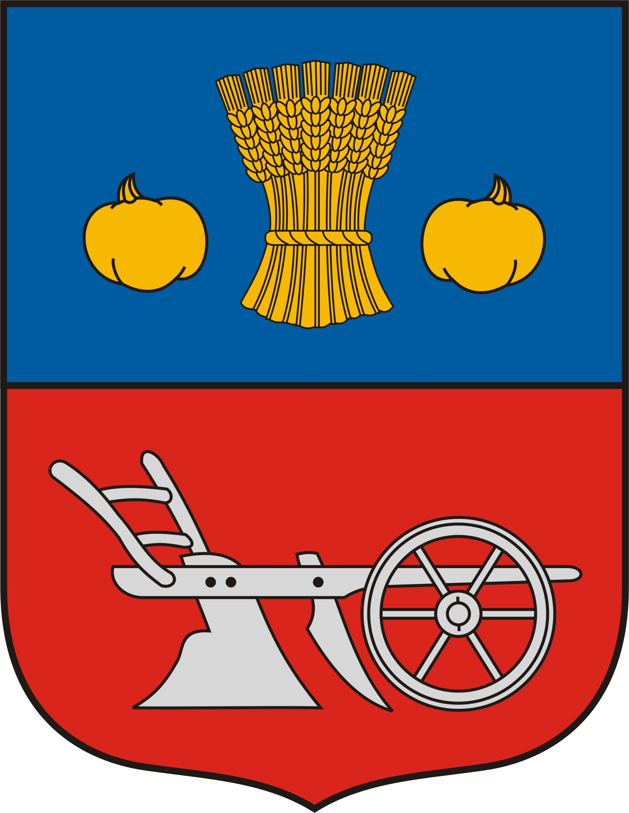 Coat of arms of Taktaharkány, Hungary